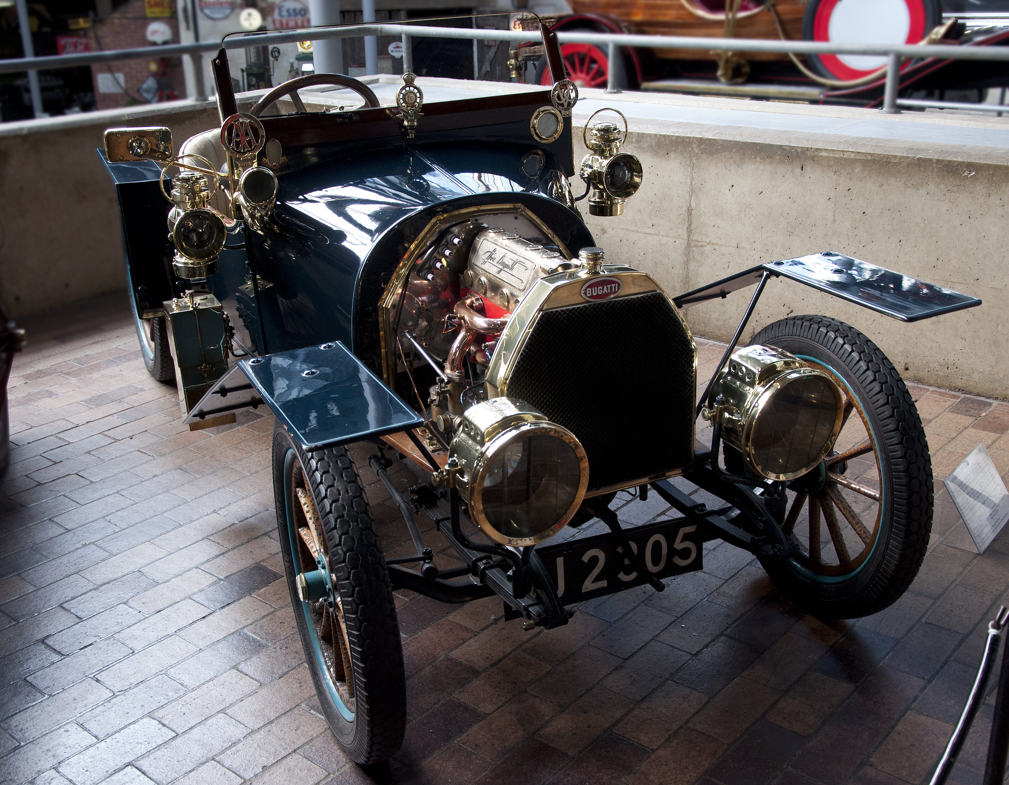 Bugatti Type 15 (1910) at the National Motor Museum, Beaulieu, England. It is the second oldest Bugatti in the world.